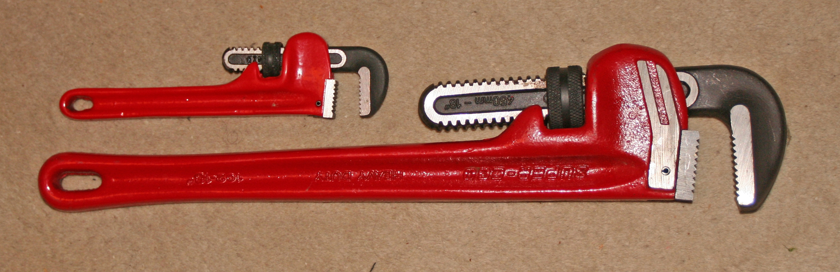 Pipe wrenches